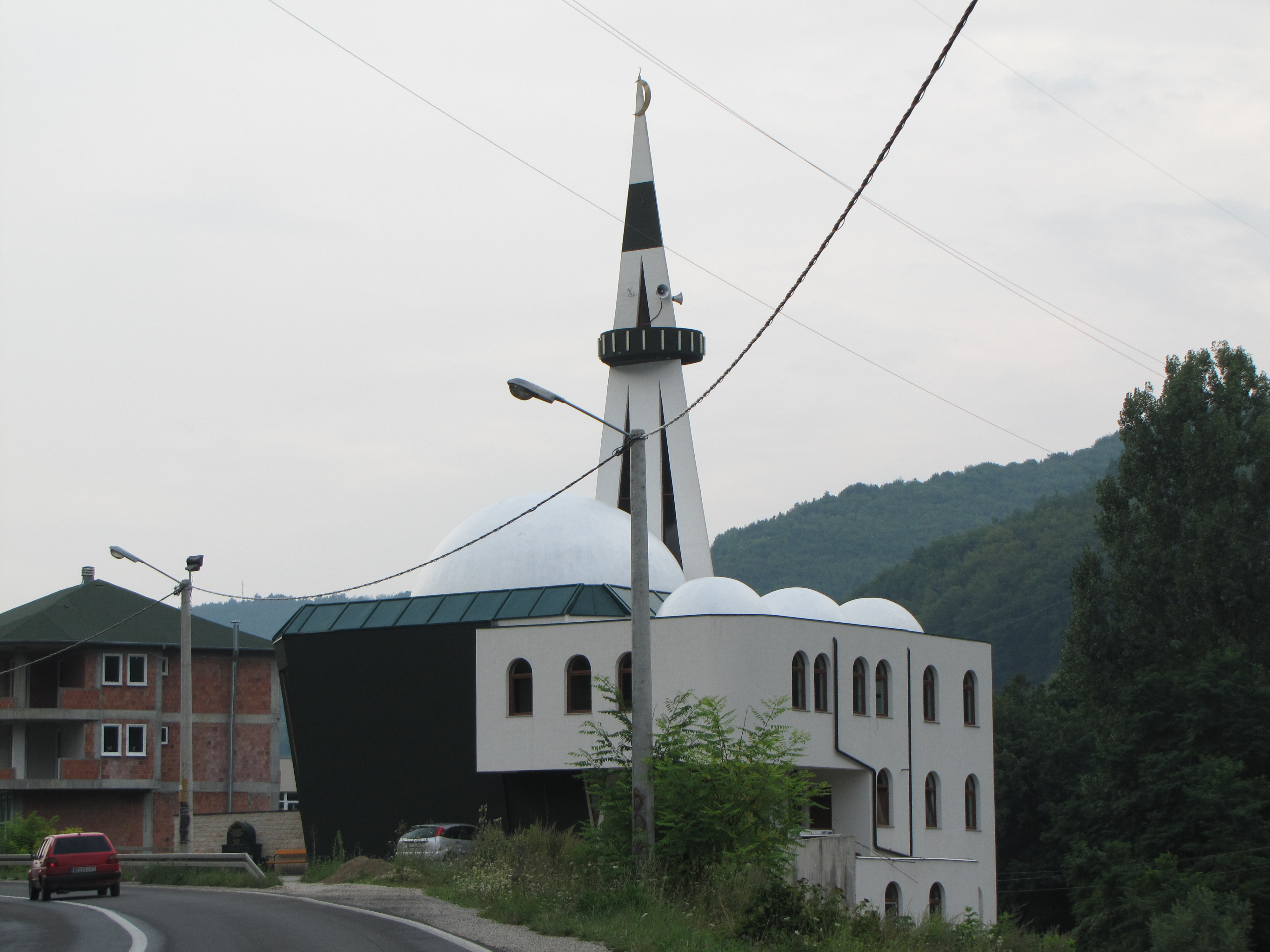 Mosque in Bajevica (SW Serbia).